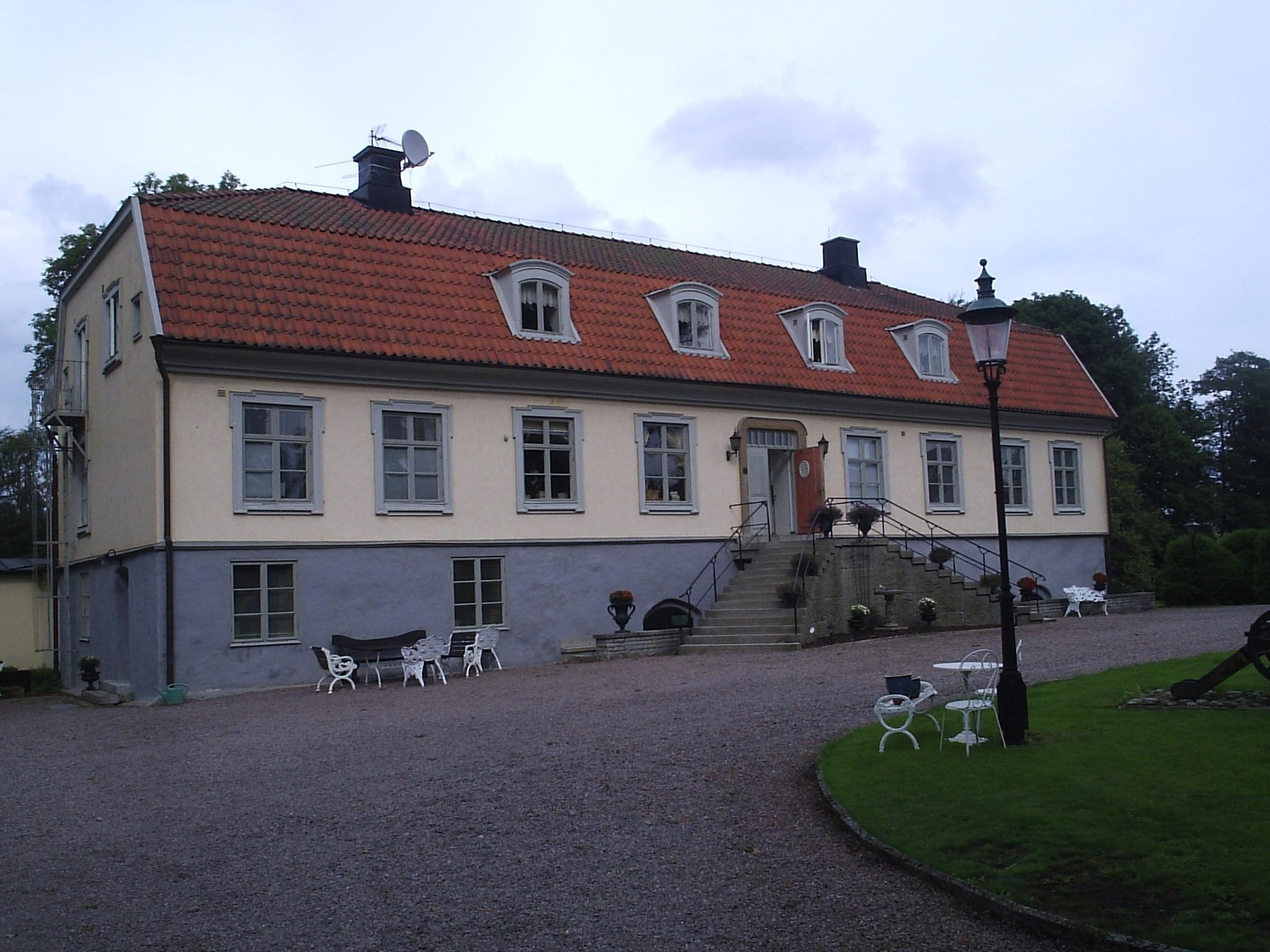 Photo by Harri Blomberg.